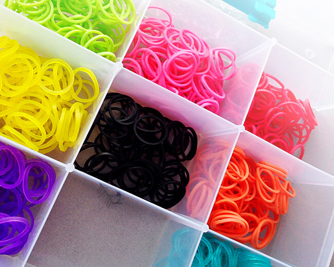 Multicolored rubberbands used with a Rainbow Loom